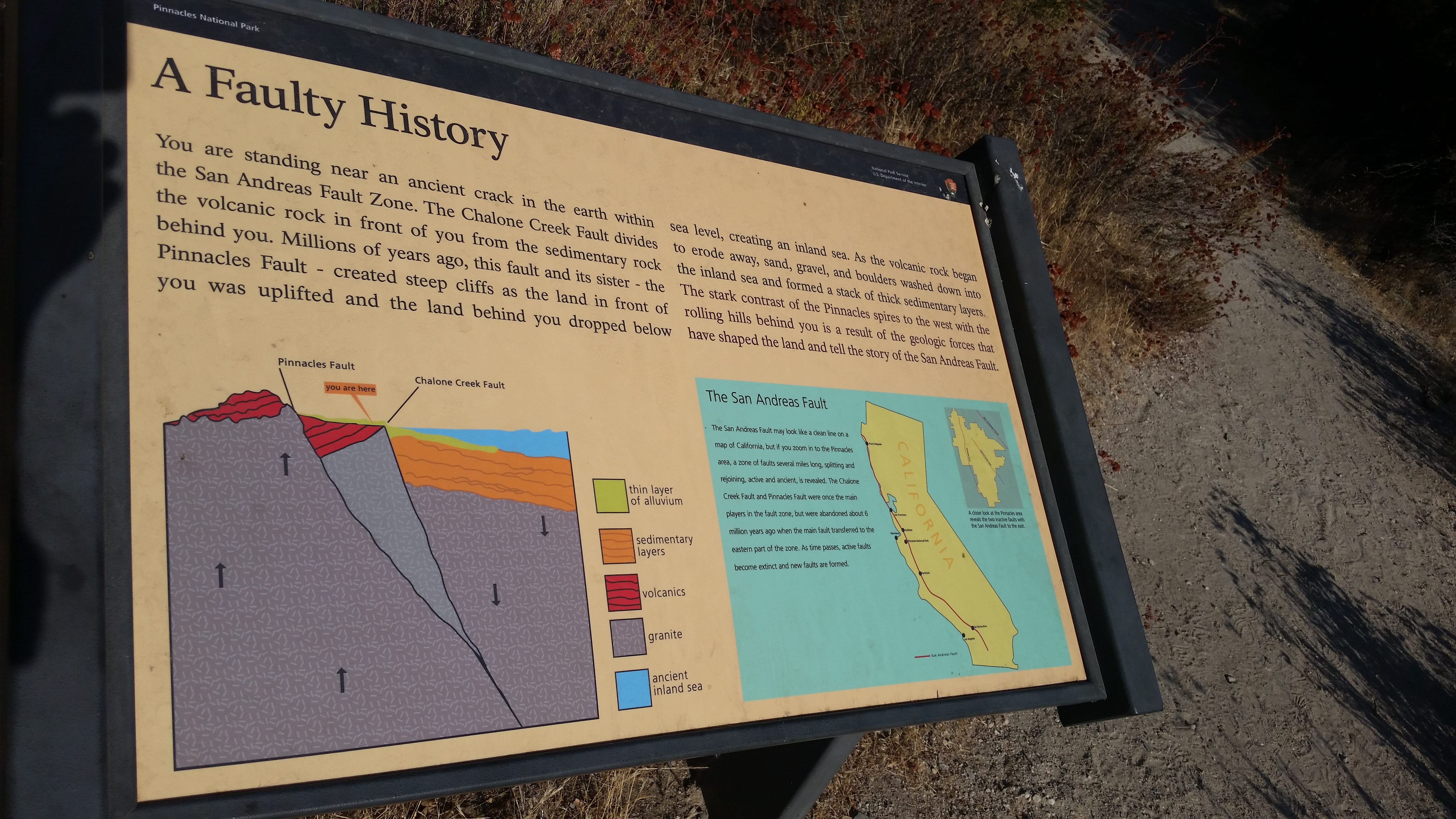 US Pinnacles National Park Marker for Peak View